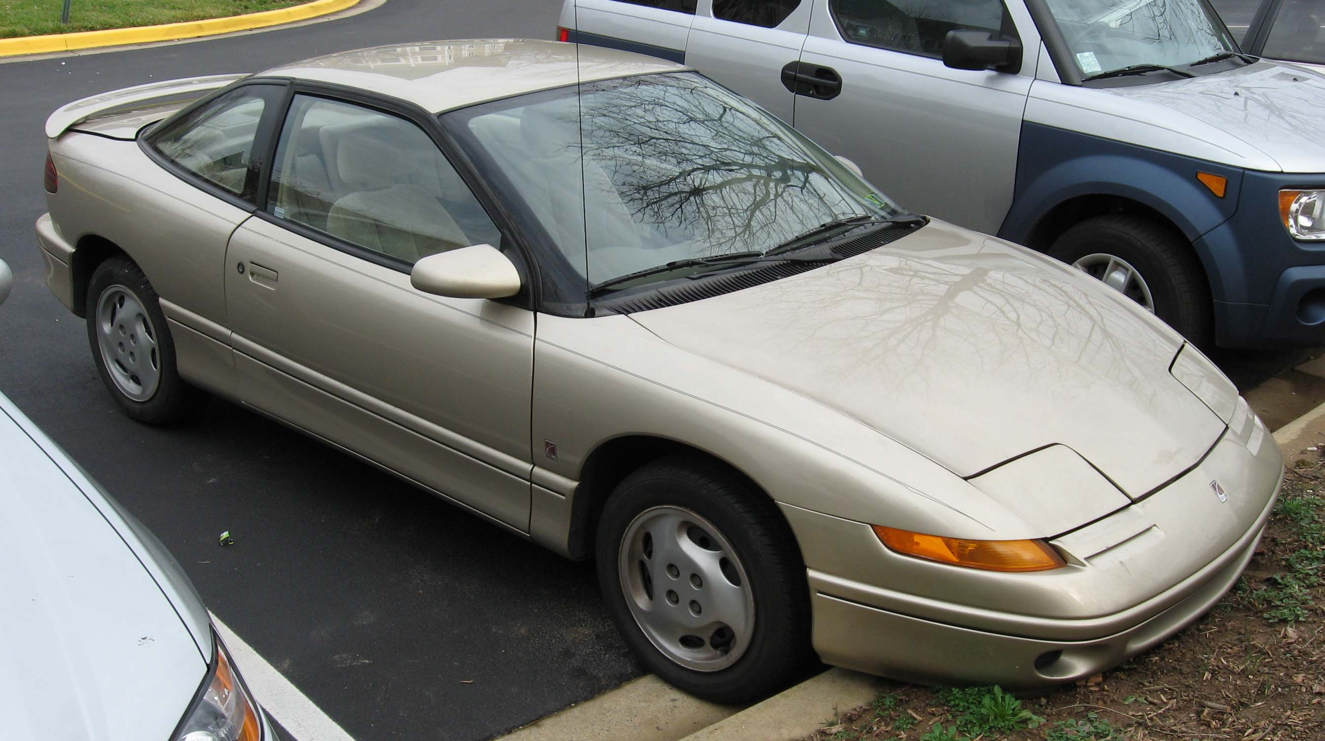 1991-1996 Saturn SC photographed in USA.